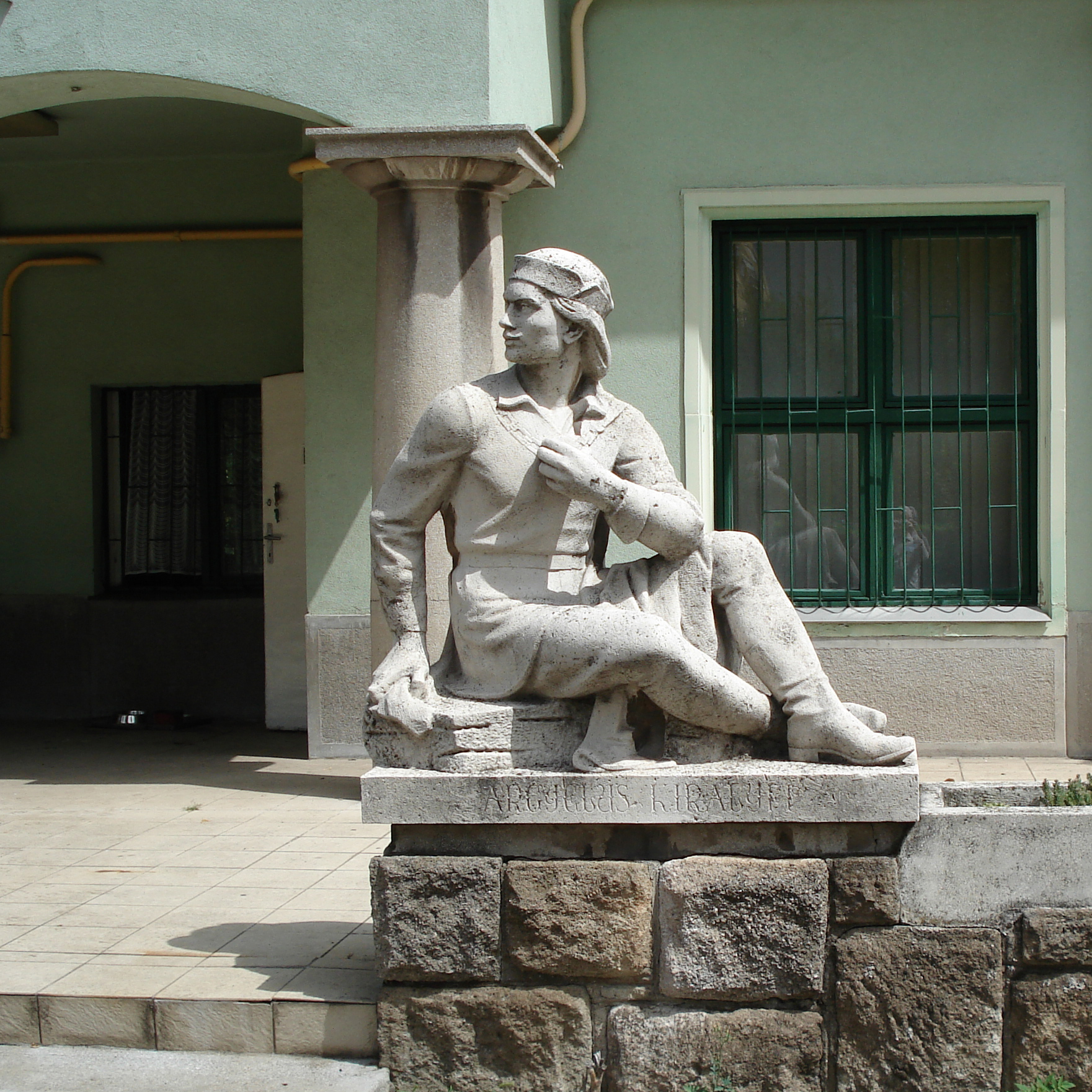 Miklós Varga: Árgyélus királyfi. Mentor high school and vocational school yard, Miskolc, Hungary